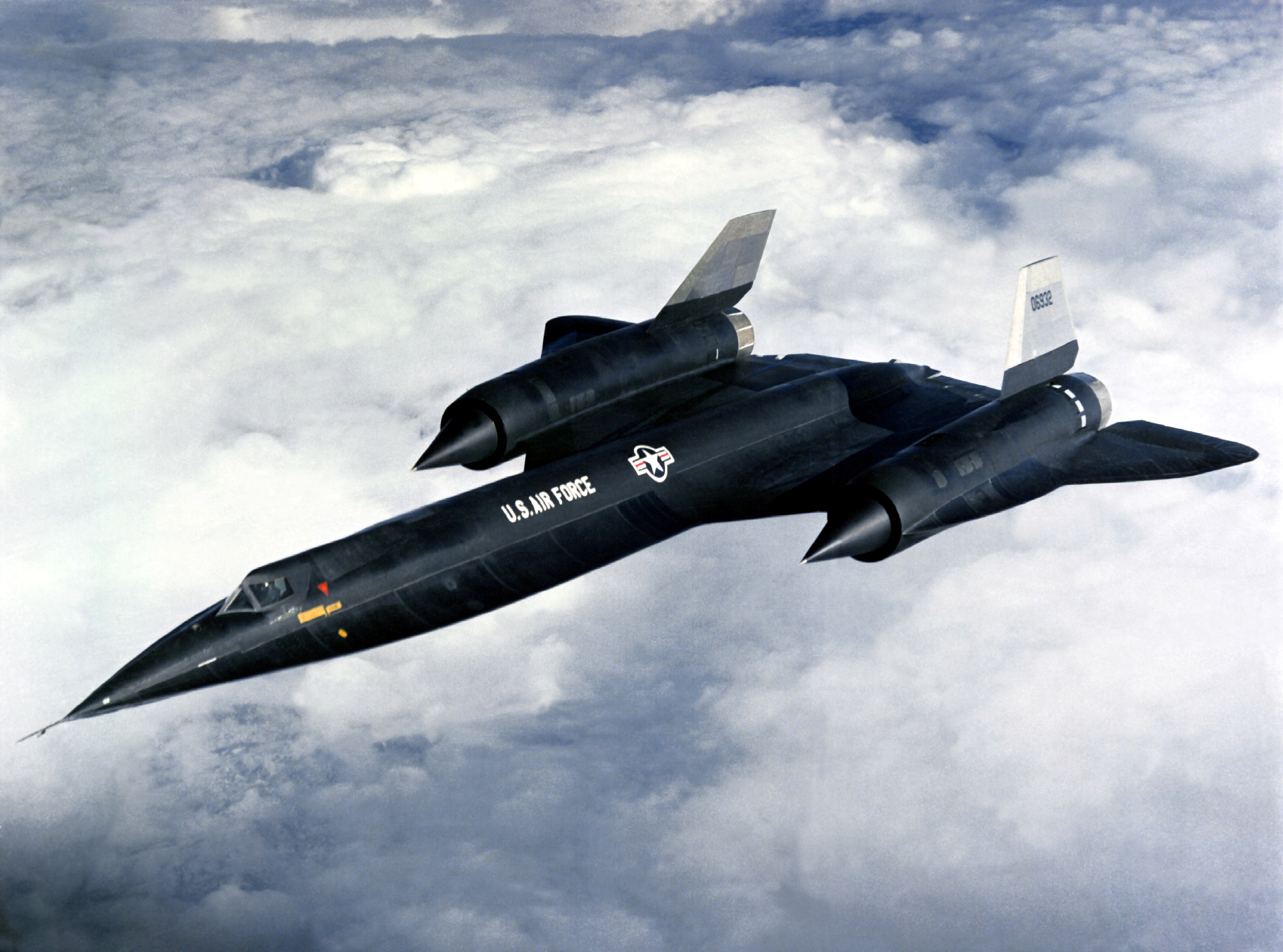 An air-to-air left front view of a A-12 aircraft. Erroneously identified as Y-12 in the source, but Serial Number 06932 is a A-12 (see Lockheed A-12). This aircraft was lost over South China Sea on June 6, 1968